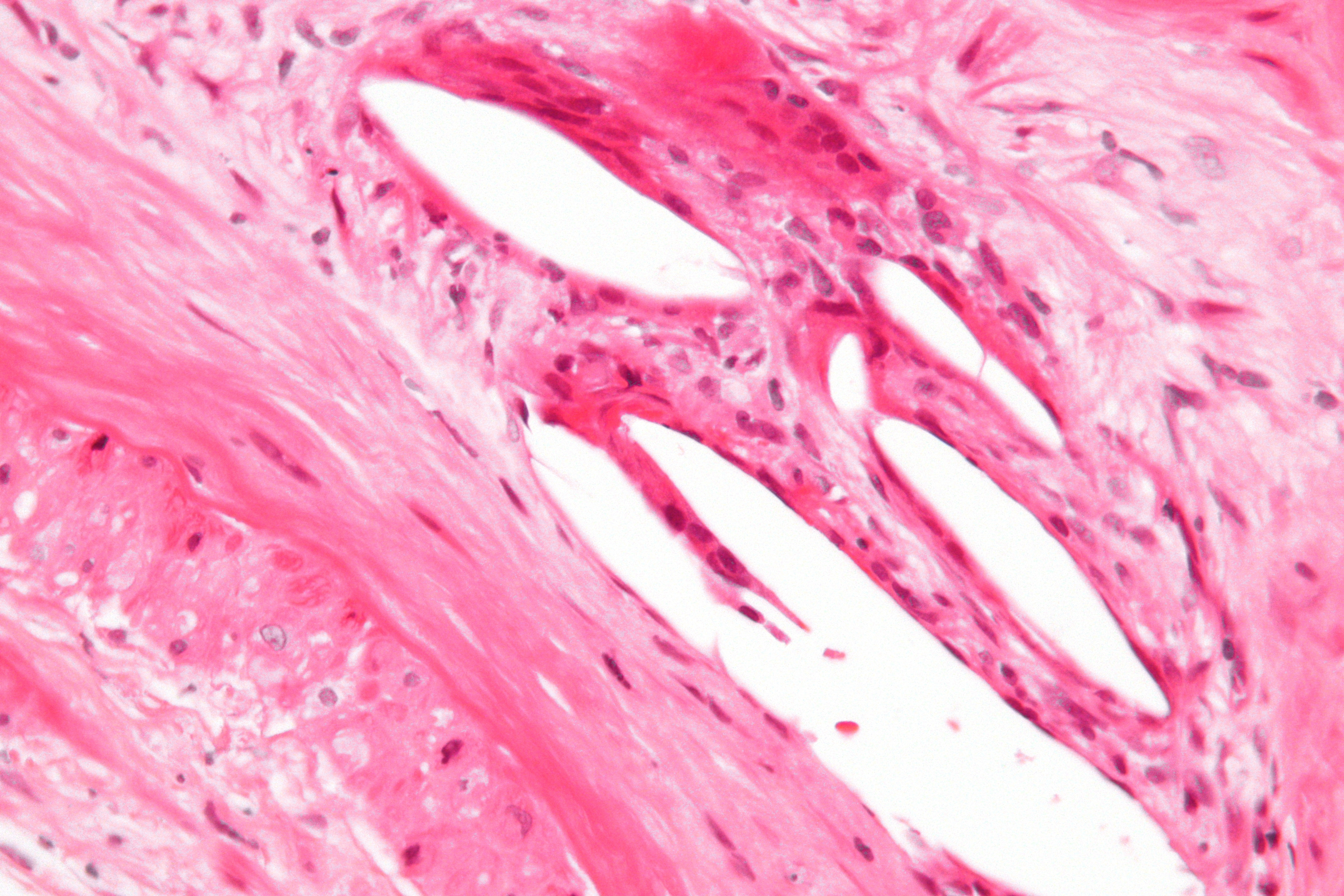 Very high magnification micrograph of a cholesterol embolus in a medium sized artery of the kidney. This is also known as atheroembolic renal disease and atheroembolism.[1] Kidney biopsy. H&E stain. The image shows numerous intra-arterial cholesterol clefts with an associated giant cell reaction. Related images Intermed. mag. High mag. Very high mag. References ↑ (Aug 2001). "Atheroembolic renal disease.". J Am Soc Nephrol 12 (8): 1781-7.